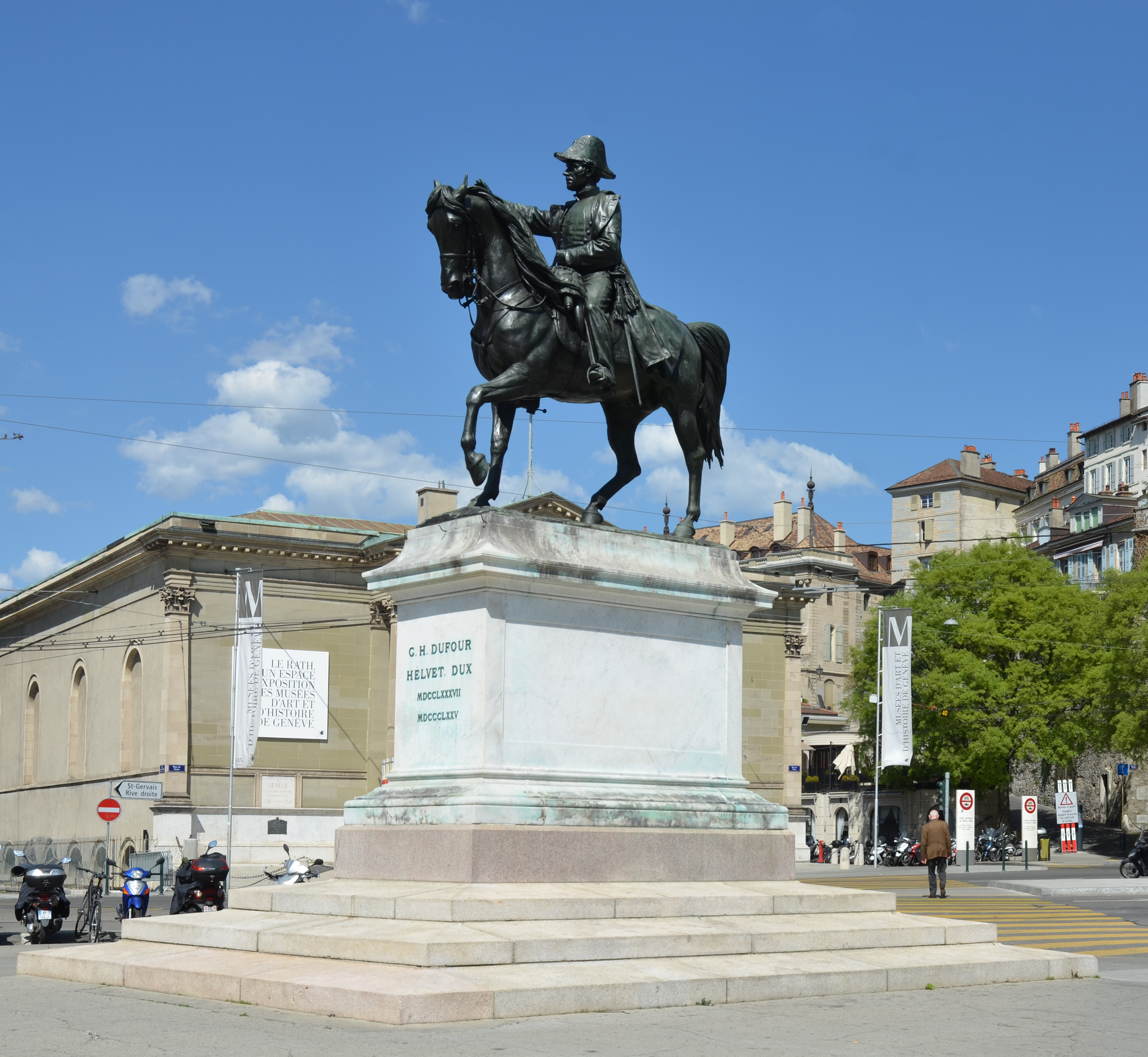 General Dufour Statue, Neuve Square, Geneva.